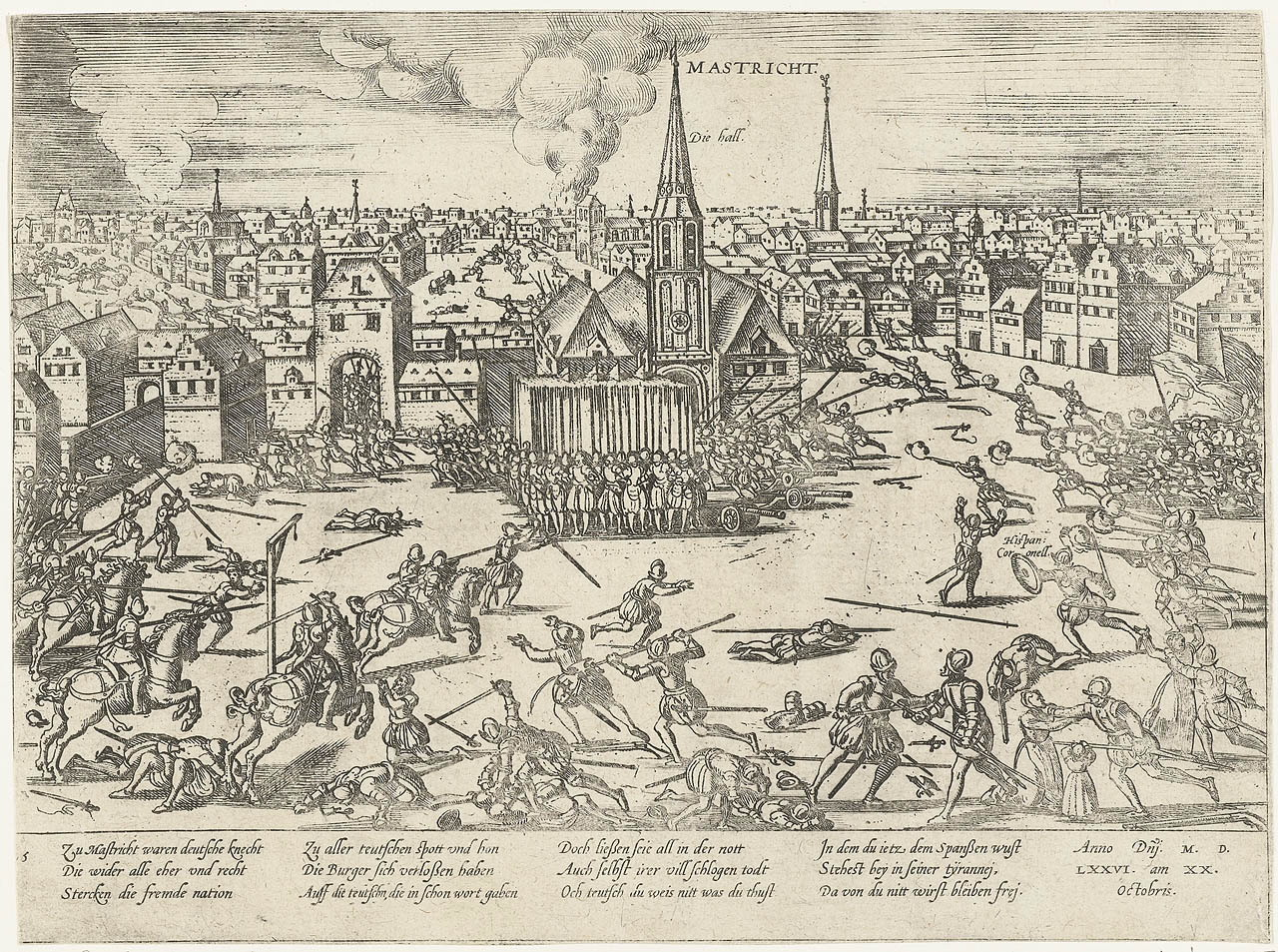 Spanish Fury, 1576, Market Square, Maastricht, the Netherlands.